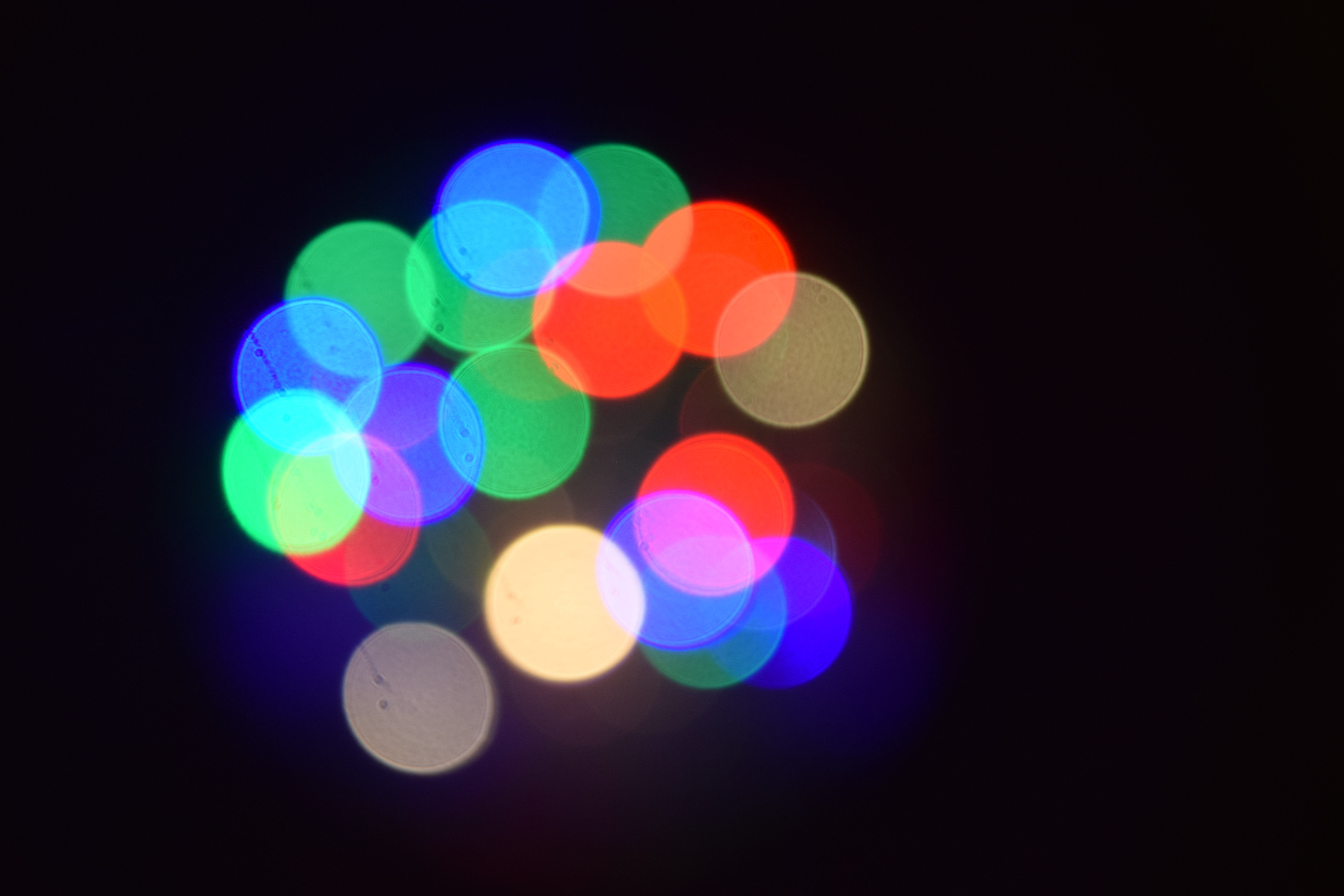 Bokeh Lights with colors